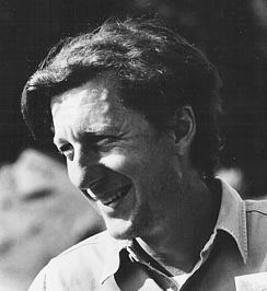 Photo of Stuart Struever, archeologist, in the field